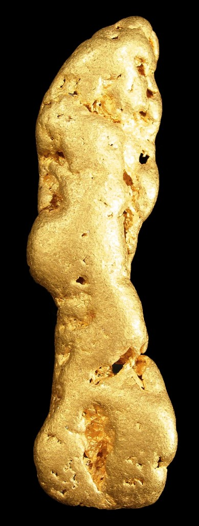 Gold Locality: Kuskokwim Mts, Yukon-Koyukuk Borough, Alaska, USA (Locality at ) Size: 6.6 x 2.0 x 1.1 cm. This is one of the most attractive Alaska nuggets, of any size, we have seen in recent years. It is a very elongated, elegant specimen that is complete-all-around. It has a fine lustre and bright color to it, with little of the crackling you often see in larger Alaska pieces. Purchased from an old collection sold at Tucson in 2005, this has been with me since. Weighs 77 grams.